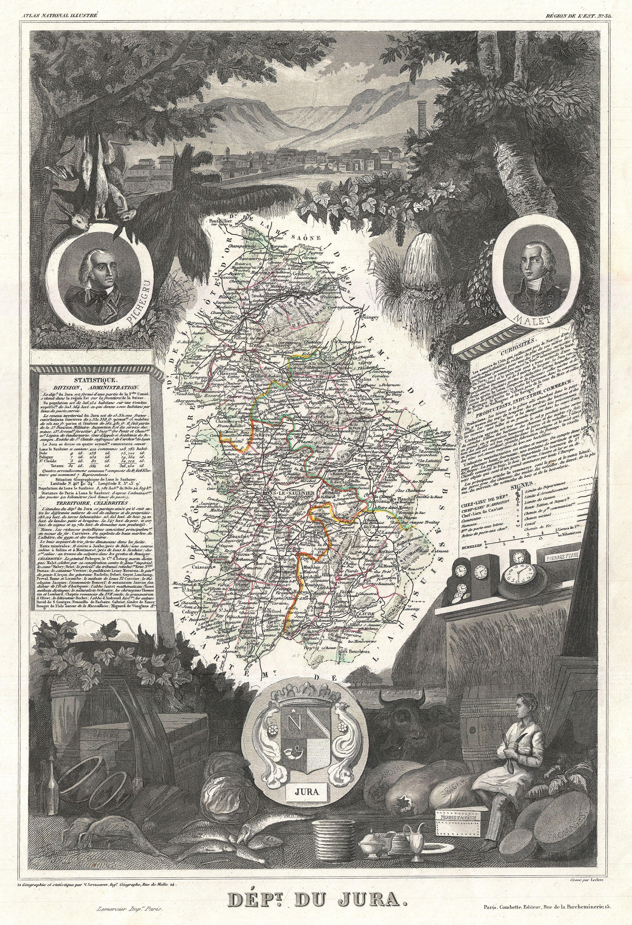 This is a fascinating 1852 map of the French department Jura, France. The Jura wines are very distinctive and unusual, such as Vin Jaune, which is made by a similar process to sherry, developing under a flor of yeast. This is made from the local Savagnin grape variety. Other grapes include Poulsard, Trousseau, and Chardonnay. The whole is surrounded by elaborate decorative engravings designed to illustrate both the natural beauty and trade richness of the land. There is a short textual history of the regions depicted on both the left and right sides of the map. Published by V. Levasseur in the 1852 edition of his Atlas National de la France Illustree.